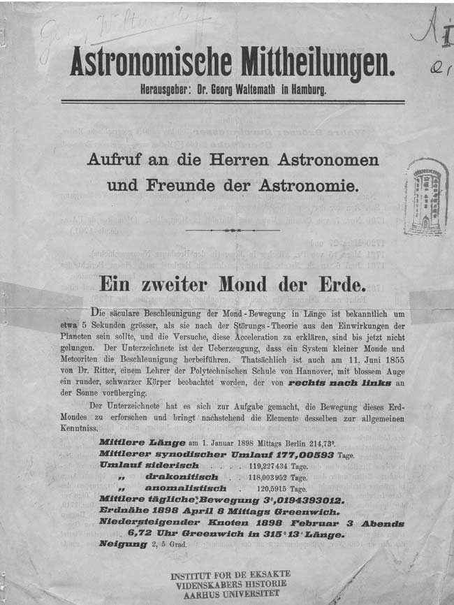 Georg Waltemath announcement of discovery of second moon of earth